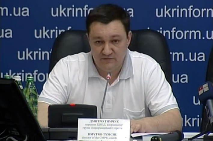 Dmytro Tymchuk, Ukrainian blogger and military expert, at press-conference, August 5, 2014.